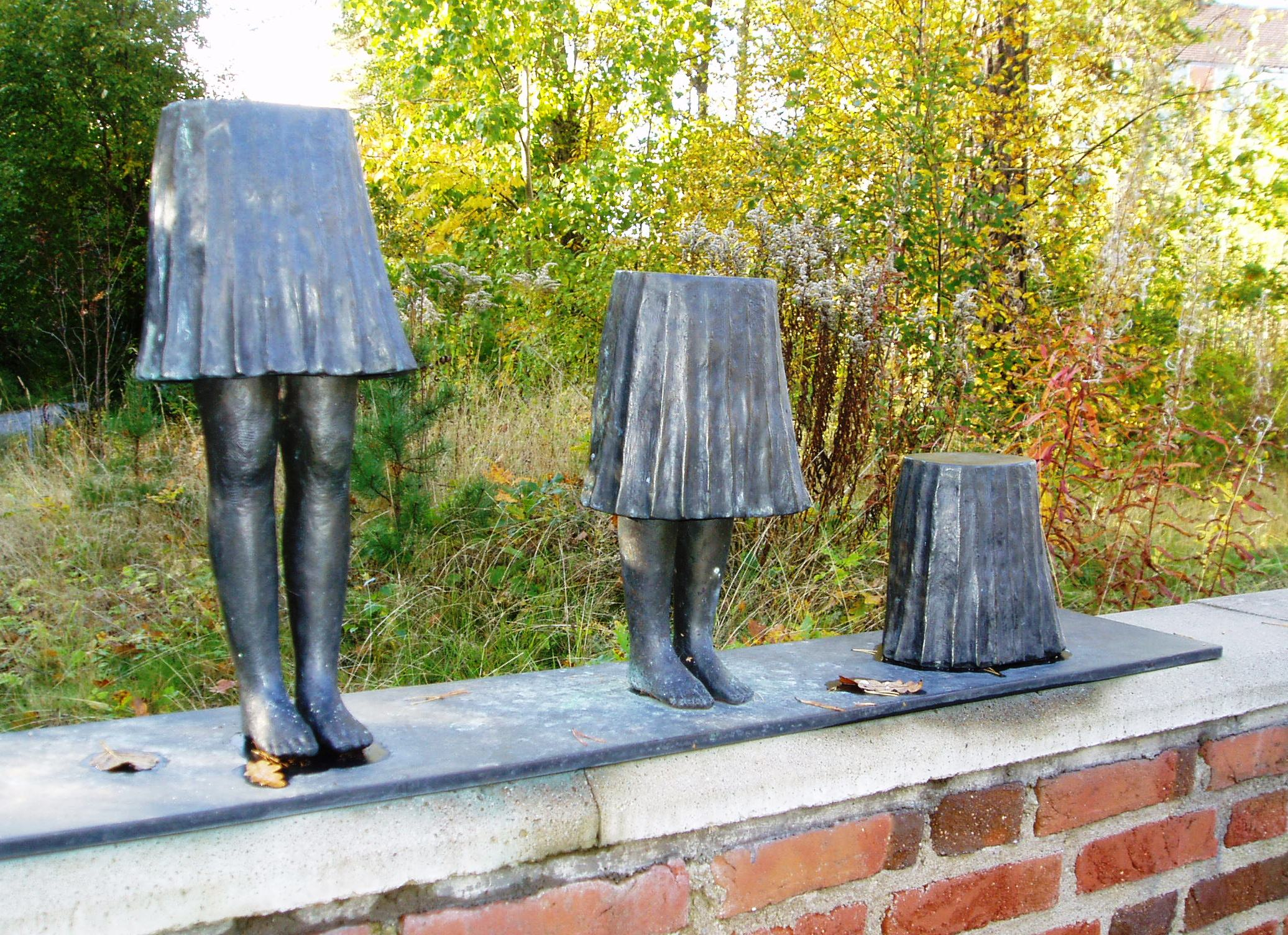 Nigning, sculpture by Linnéa Jörpeland, at gymnasium in Skogås, Huddinge municipality, Sweden